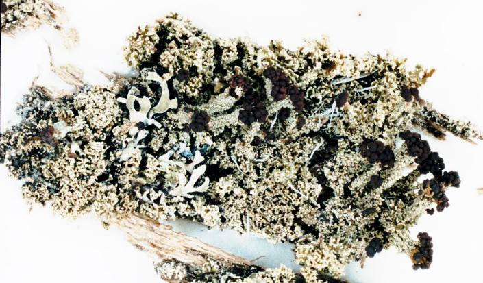 Cladonia parasitica (Hoffm.) Hoffm., 1796 Photograph of a herbarium specimen. C. parasitica was growing on the bark of a small tree at the Endless Mountain Retreat, S on County Road 601, approximately 2.4 miles from US 250 in Highland County, Virginia, USA; collected and identified by E.C. Uebel (No. U-363, 8 Jun 2002).